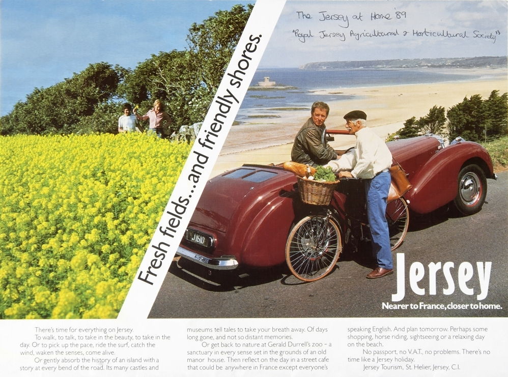 Jersey tourism advertisement with actor John Nettles everlooking St Ouen's Bay, 1989. Jersey Tourism, the tourism agency of the States of Jersey, has placed a selection from its advertising archive online at Flickr under CC licences : It further states there: "Jersey Tourism is part of the States of Jersey. These images are provided freely, without copyright restrictions and no royalties are payable."